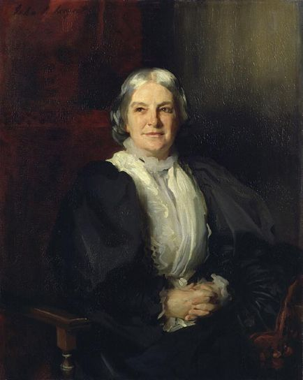 Octavia Hill by John Singer Sargent (1856–1925), scanned from the Church Times